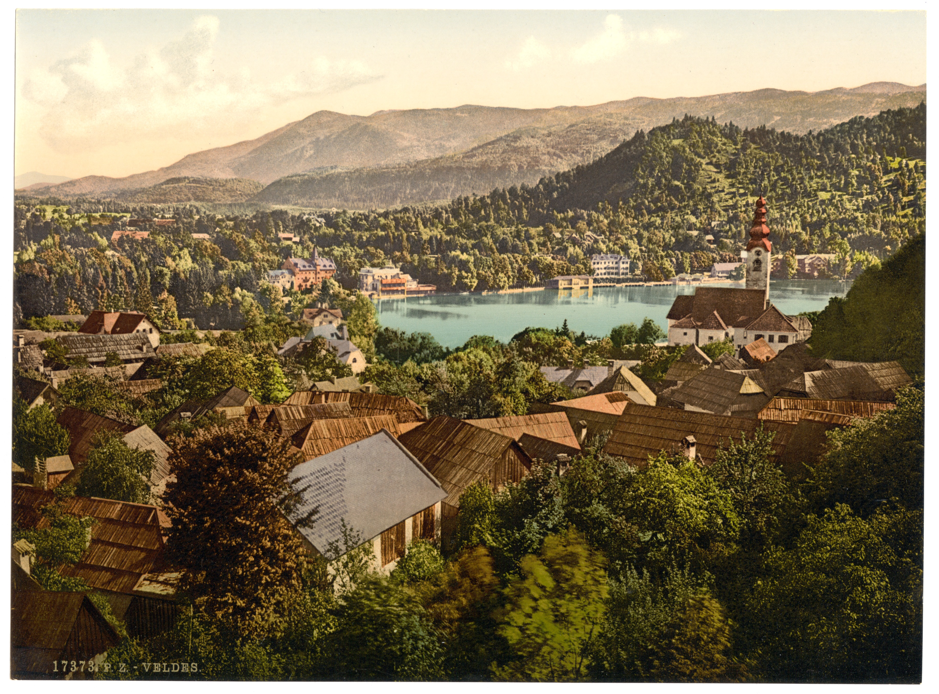 Print no. "17373".; Forms part of: Views of the Austro-Hungarian Empire in the Photochrom print collection.; Title from the Detroit Publishing Co., Catalogue J-foreign section, Detroit, Mich. : Detroit Publishing Company, 1905.